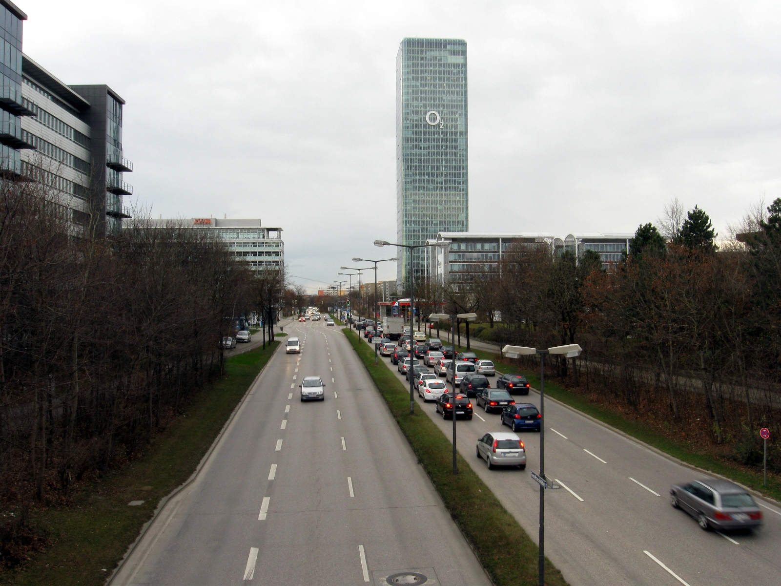 Western part of the Georg-Brauchle-Ring in Munich (Bavarian, Germany), brought Moosach with the Uptown Munich